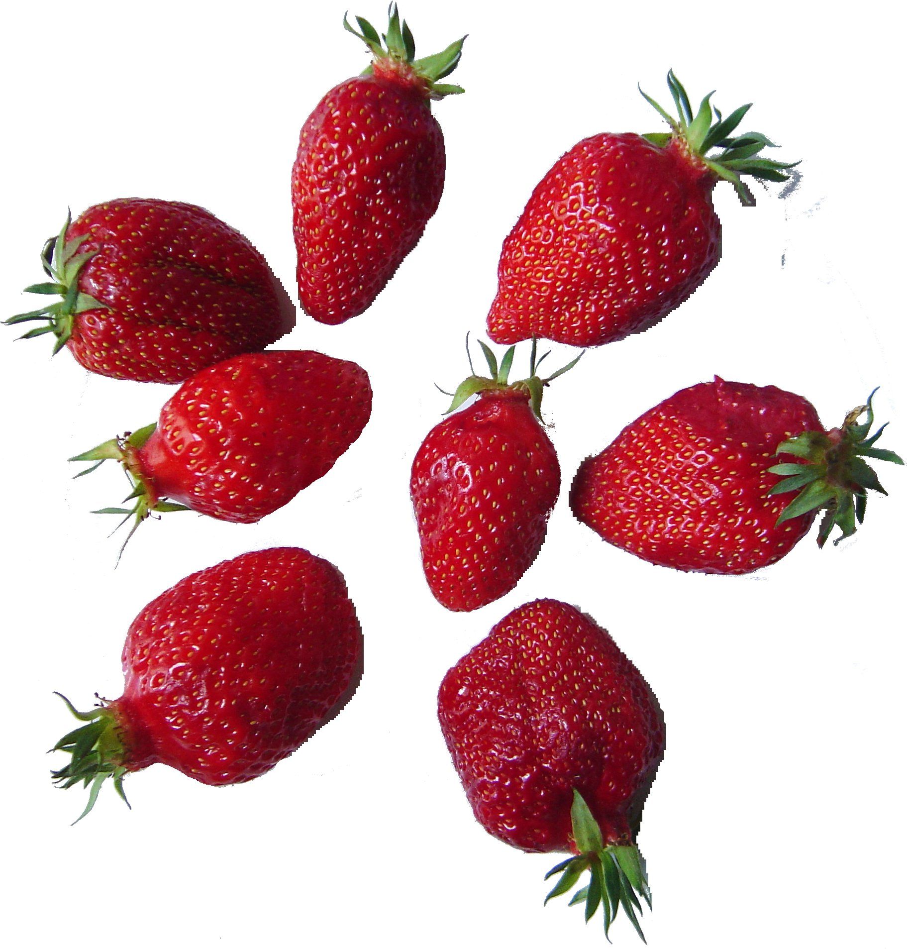 'Gariguettes' strawberries